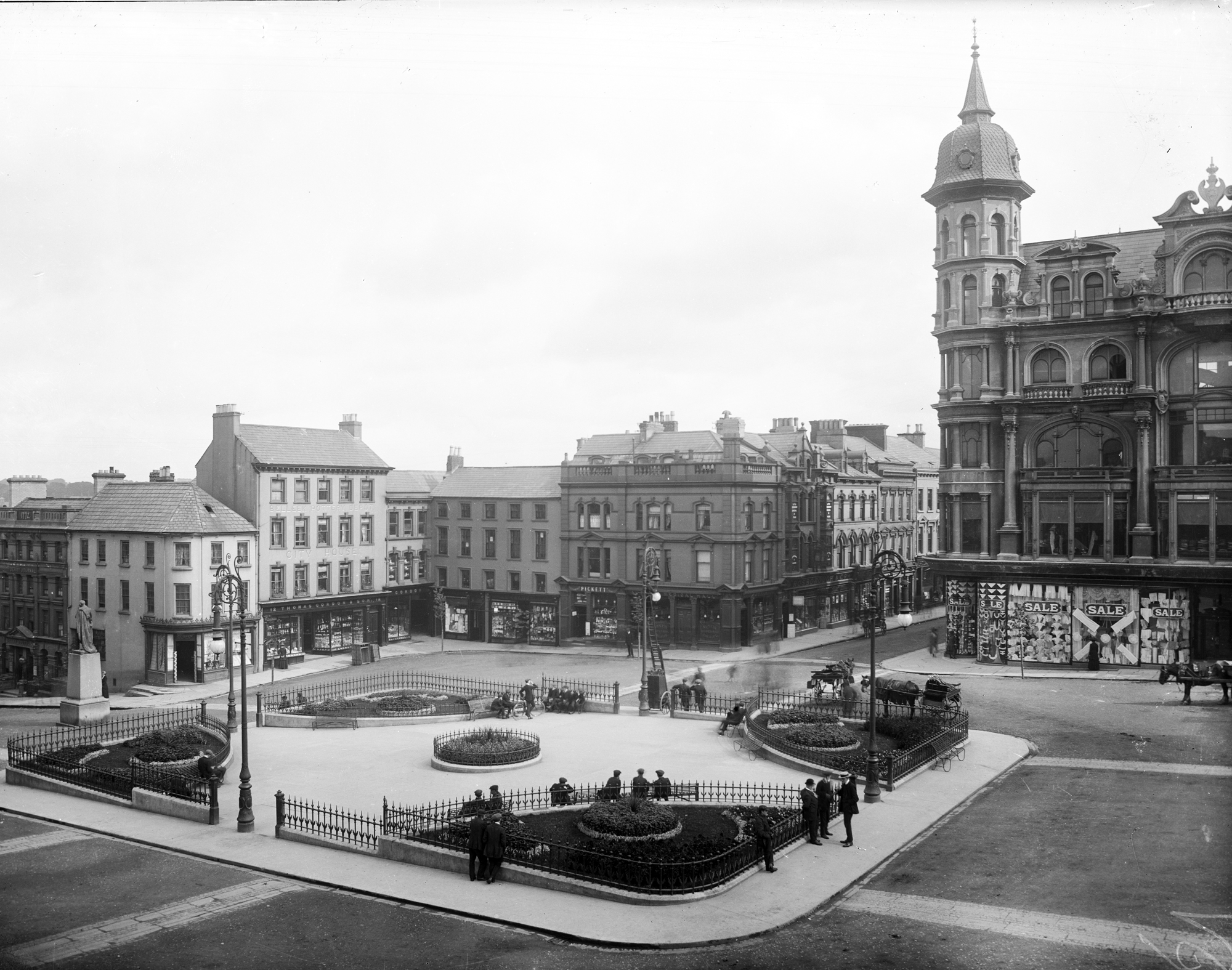 ... at the Diamond in Derry! But the reason I picked this one was for the excellent capture of a lamplighter in his natural environment, complete with carty ladder or laddery cart. Could he be doing maintenance work? Date: Circa 1907? (definitely after 1906) NLI Ref.: L_ROY_02895